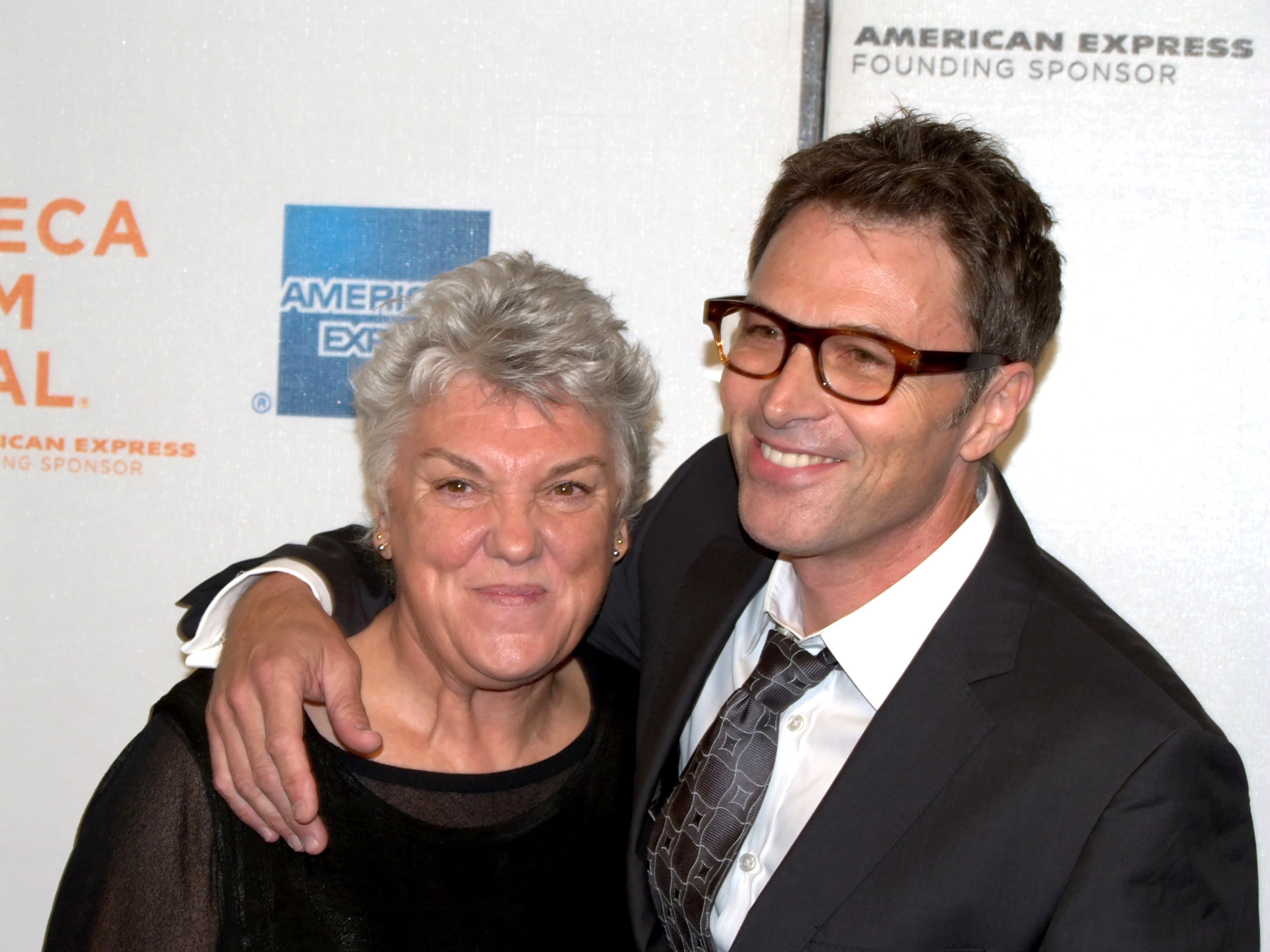 Tyne Daly and her brother Tim Daly at the 2009 Tribeca Film Festival premiere of PoliWood Photographer's blog post about the event at which this portrait was taken.